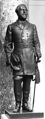 Statue of Robert E. Lee at NSHC